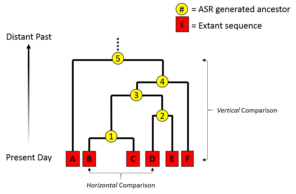 An illustration of a phylogenetic tree, indicating where ASR sequences are derived from as well as the difference between horizontal and vertical comparison